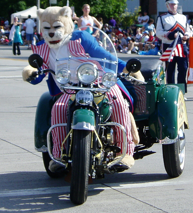 Cosmo at the 2006 Freedom Festival Grand Parade in Provo, Utah.